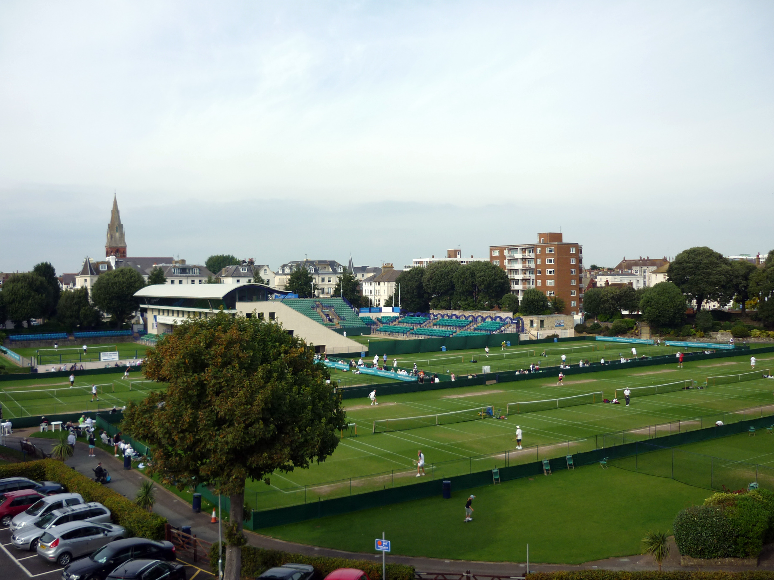 Devonshire Park tennis courts, Eastbourne, near to Eastbourne, East Sussex, Great Britain.